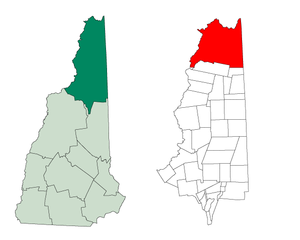 Map of a municipality in Coos County, New Hampshire